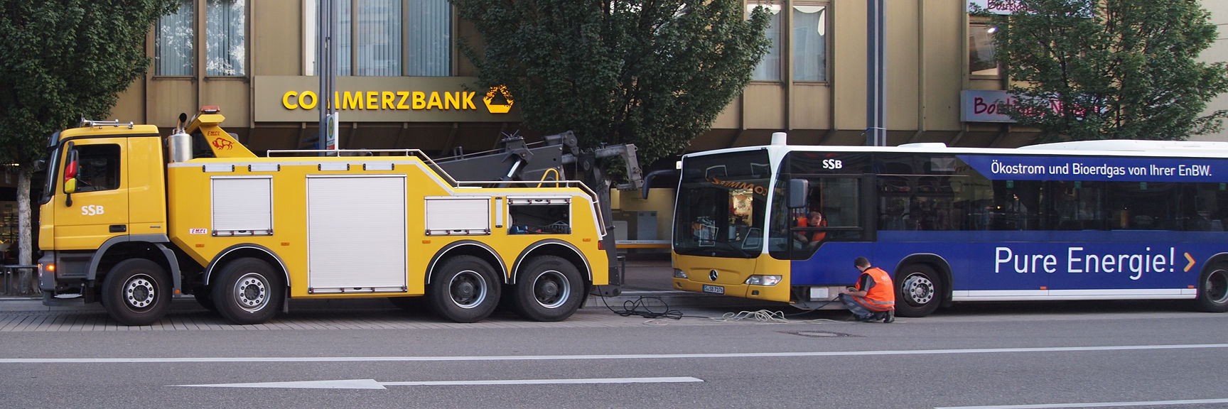 Bus rescue/tow truck